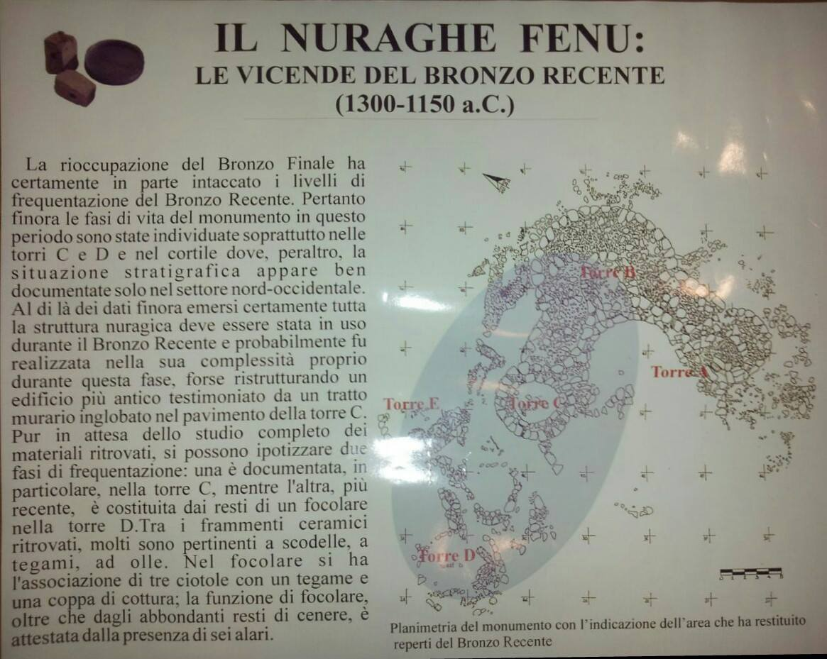 Planimetry